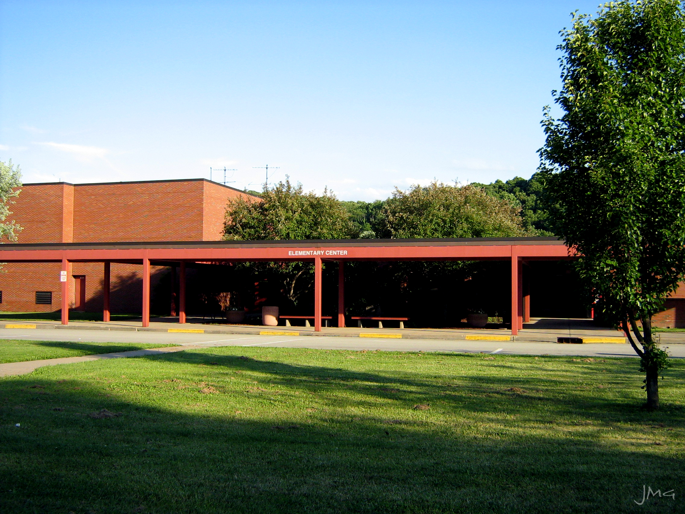 Avella Area Elementary School